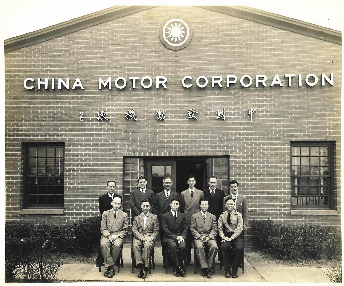 Top managers, chief engineers, and American consultants in front of the China Motor Corporation. China Motor Corporation(中國發動機廠) was the first Chinese factory of manufacturing jet engines. It was established with American assistance. World War II, in Kuichow (current Guizhou), China.